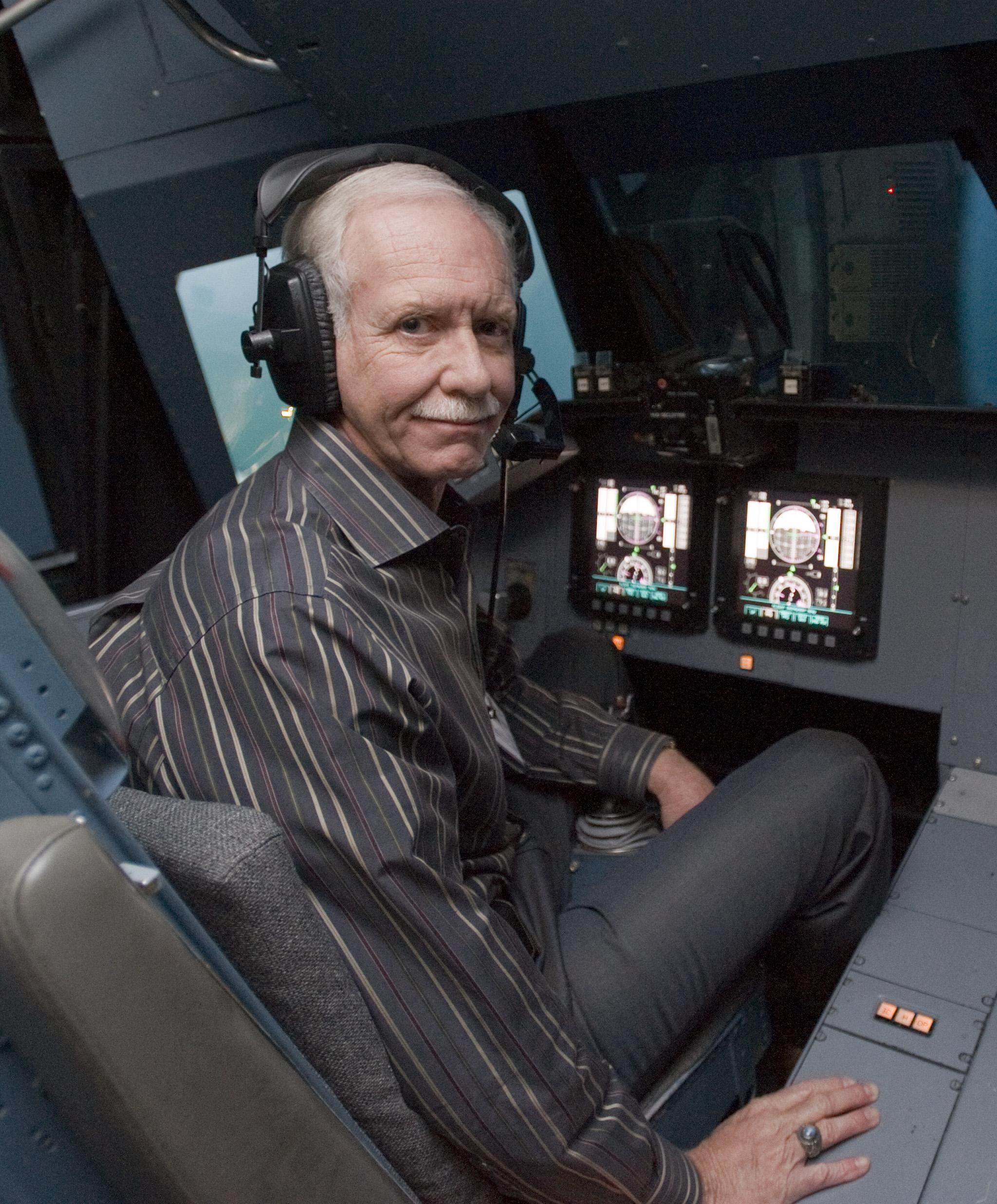 Captain Chesley Sullenberger visited the Vertical Motion Simulator at the NASA Ames Research Center in Moffett Field, California.